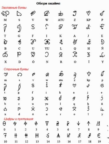 Oberi Okaime Alphabet